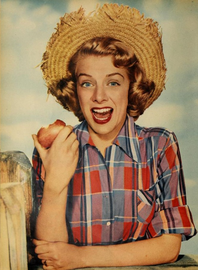 Rosemary Clooney in 1953